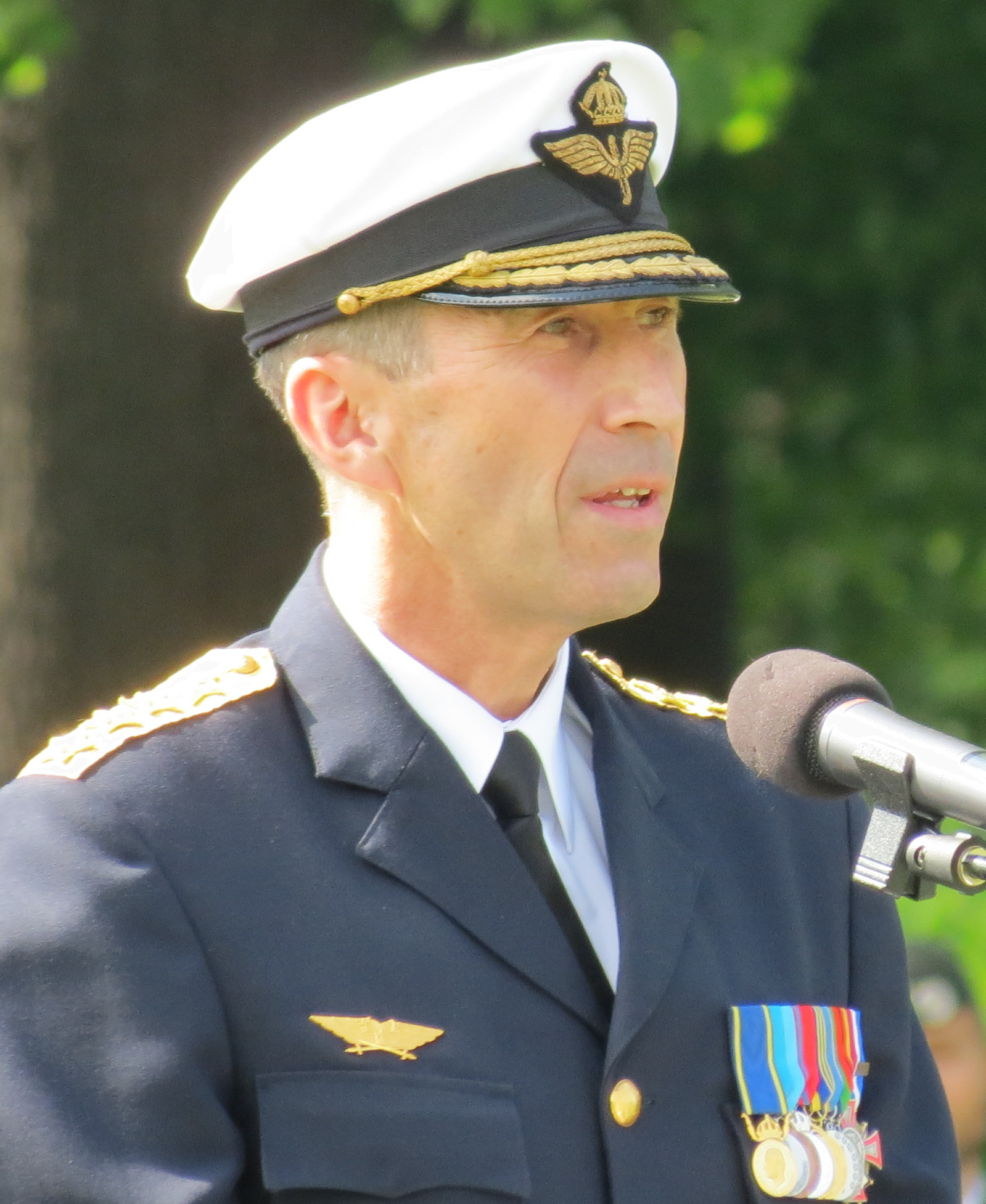 ÖB Micael Bydén at the Veterans day 29 maj 2016